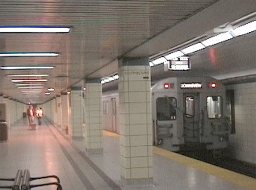 A train of the Toronto Subway at Museum Station